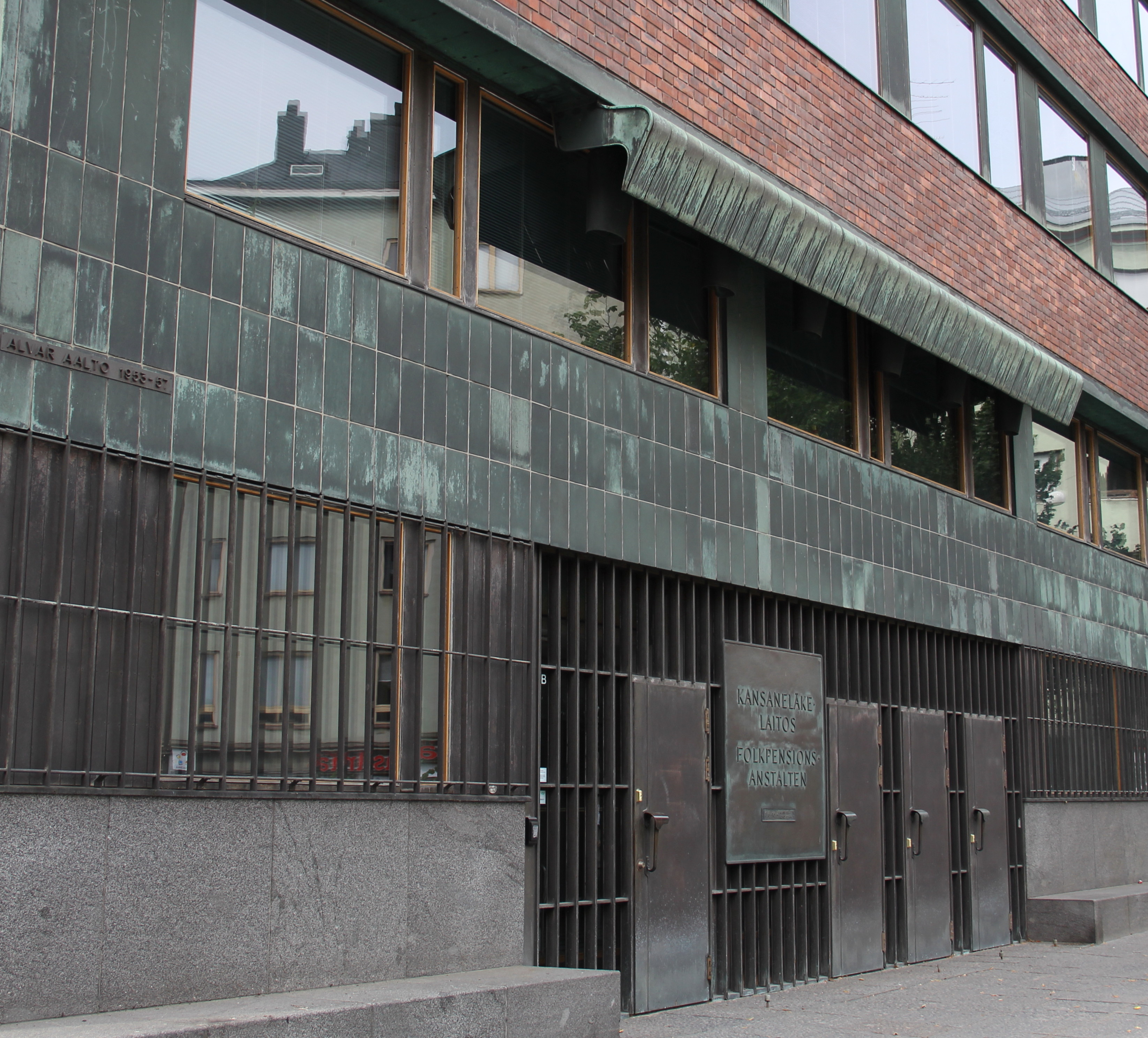 Kansaneläkelaitos headquarters, Taka-Töölö, Helsinki, Finland. Designed by Alvar Aalto, completed in 1956. - Main entrance.